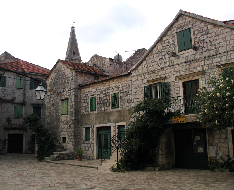 little baroque square Škor in Stari Grad on island Hvar